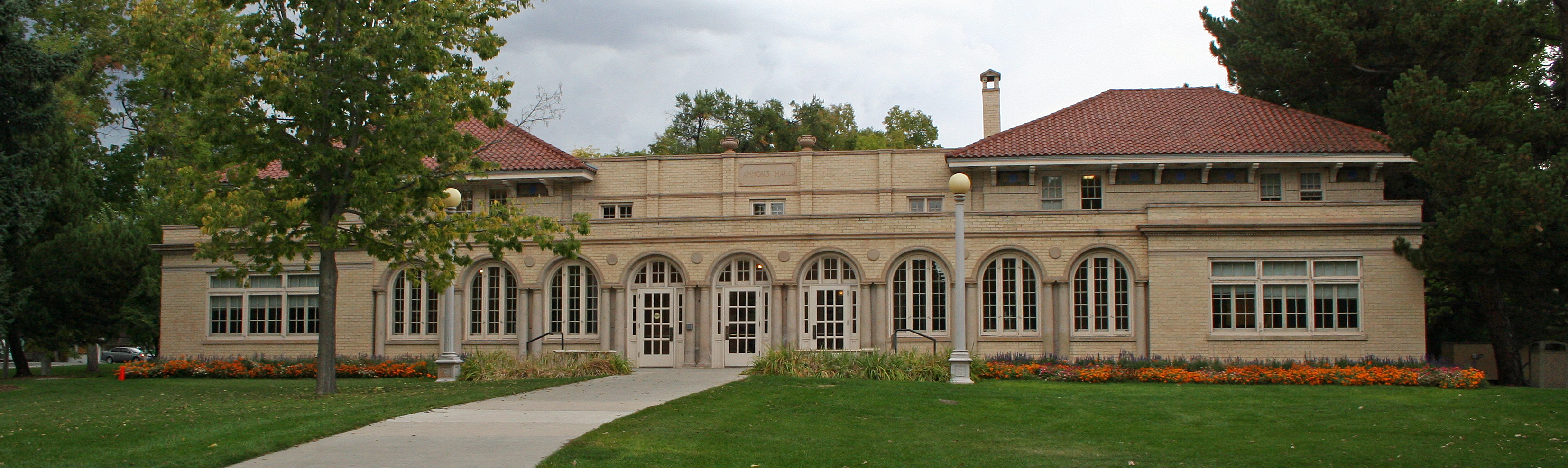 Ammons Hall on the Colorado State University Campus in Fort Collins, Colorado. The building is listed on the National Register of Historic Places.